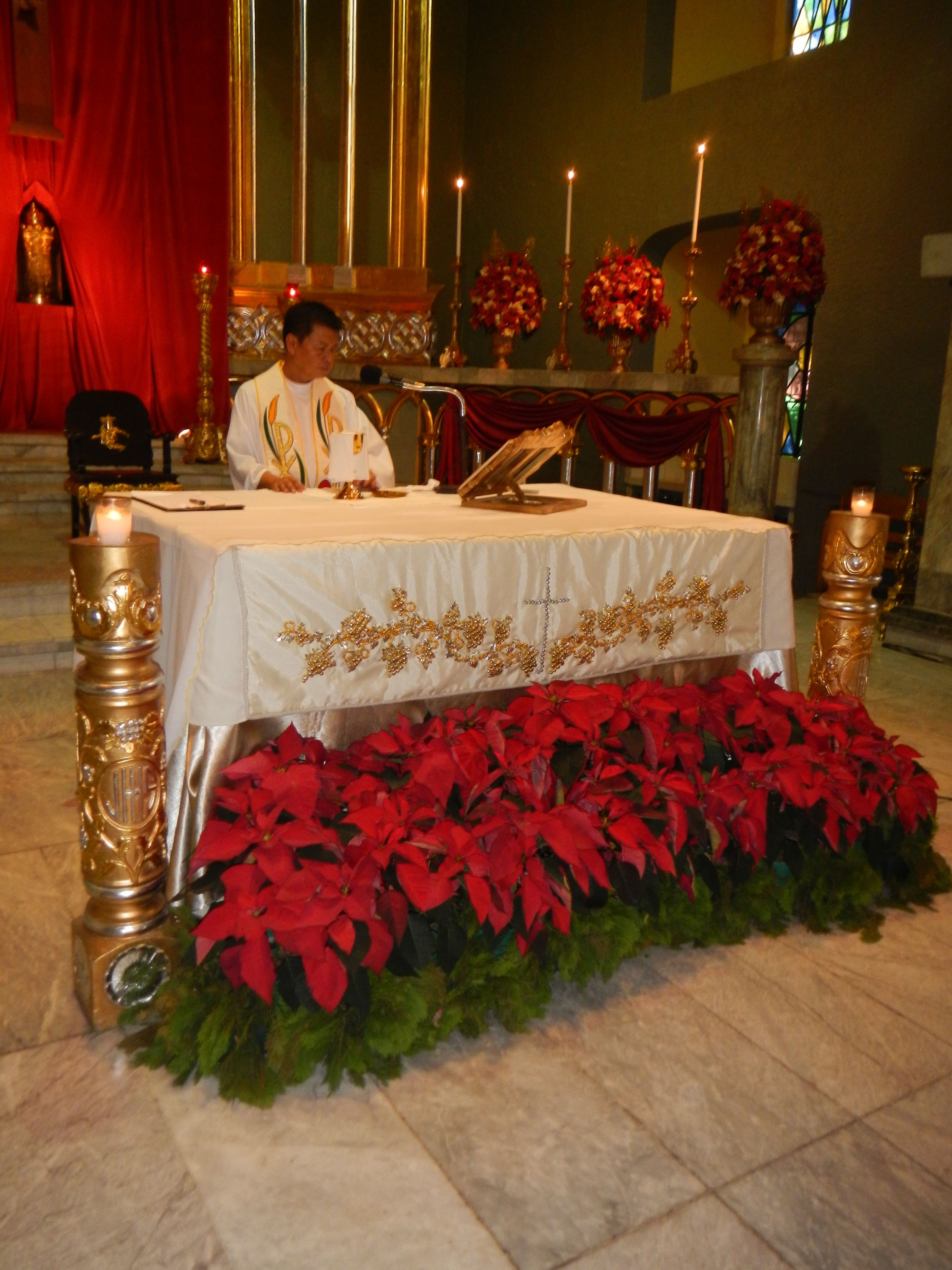 Upload Wizard -- (general description of landmarks, town, church) - of Saint Martin of Tours Parish Church of Bocaue [1] "Mahal na Poon ng Krus sa Wawa" Diocesan Shrine, Bocaue, Bulacan which belongs to the Roman Catholic Diocese of Malolos [2] in - Bocaue, Bulacan[3].[4] Vicariate of St. Martin of Tours[5] - beside the St. Paul University Quezon City Bocaue Extension.